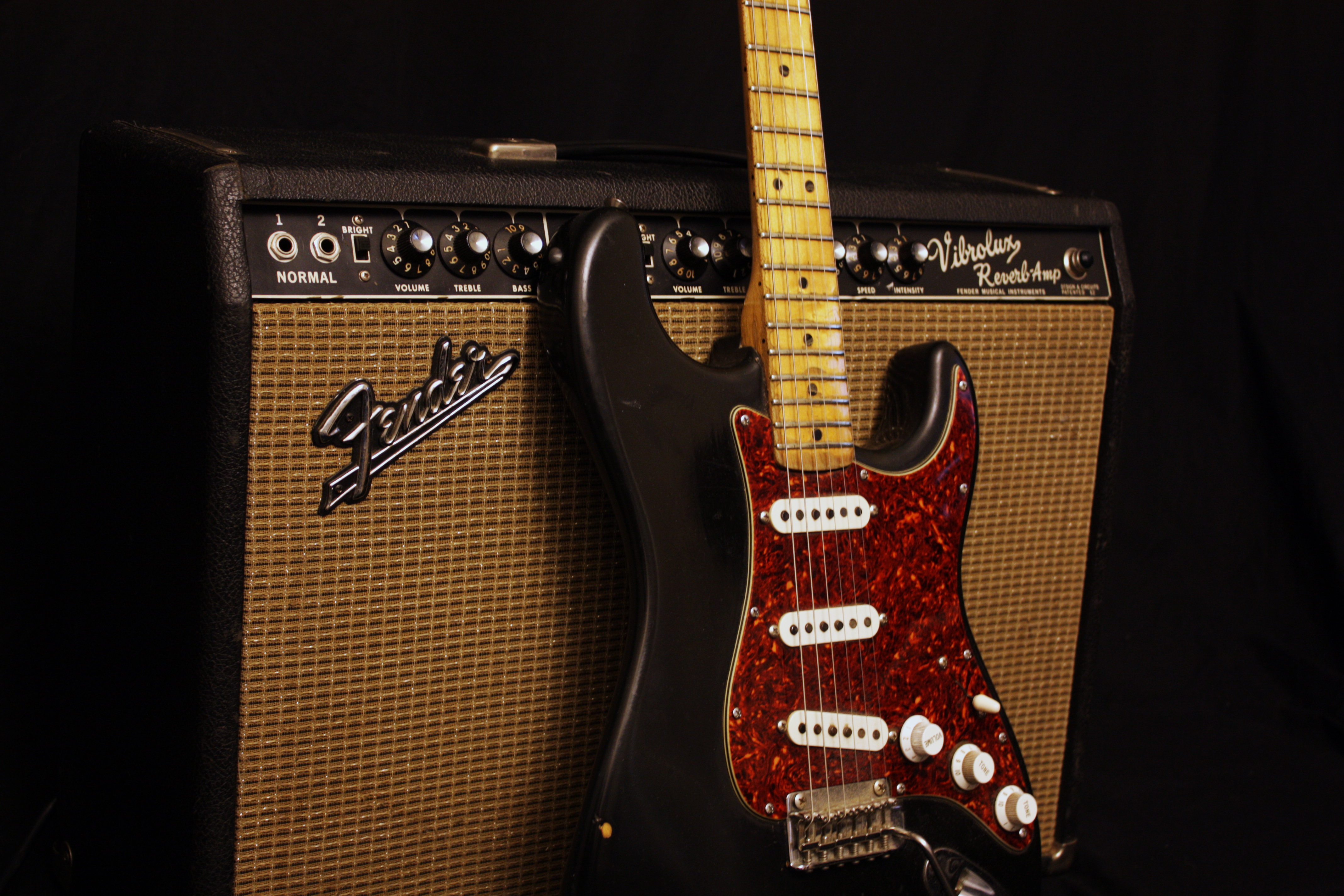 strat and amp